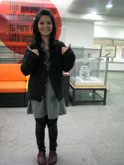 Taken in function